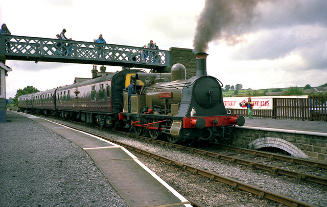 'Bellerophon' seen at Embsay 'Bellerophon' was built in 1874.